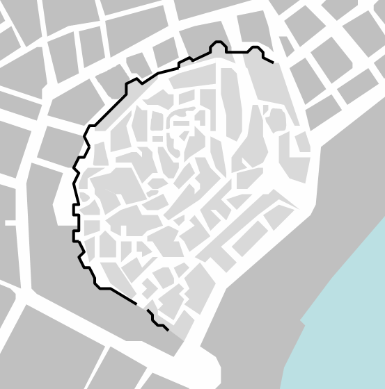 Map of Old City in Baku